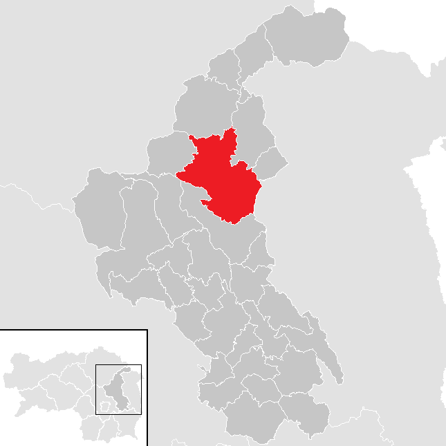 district Weiz